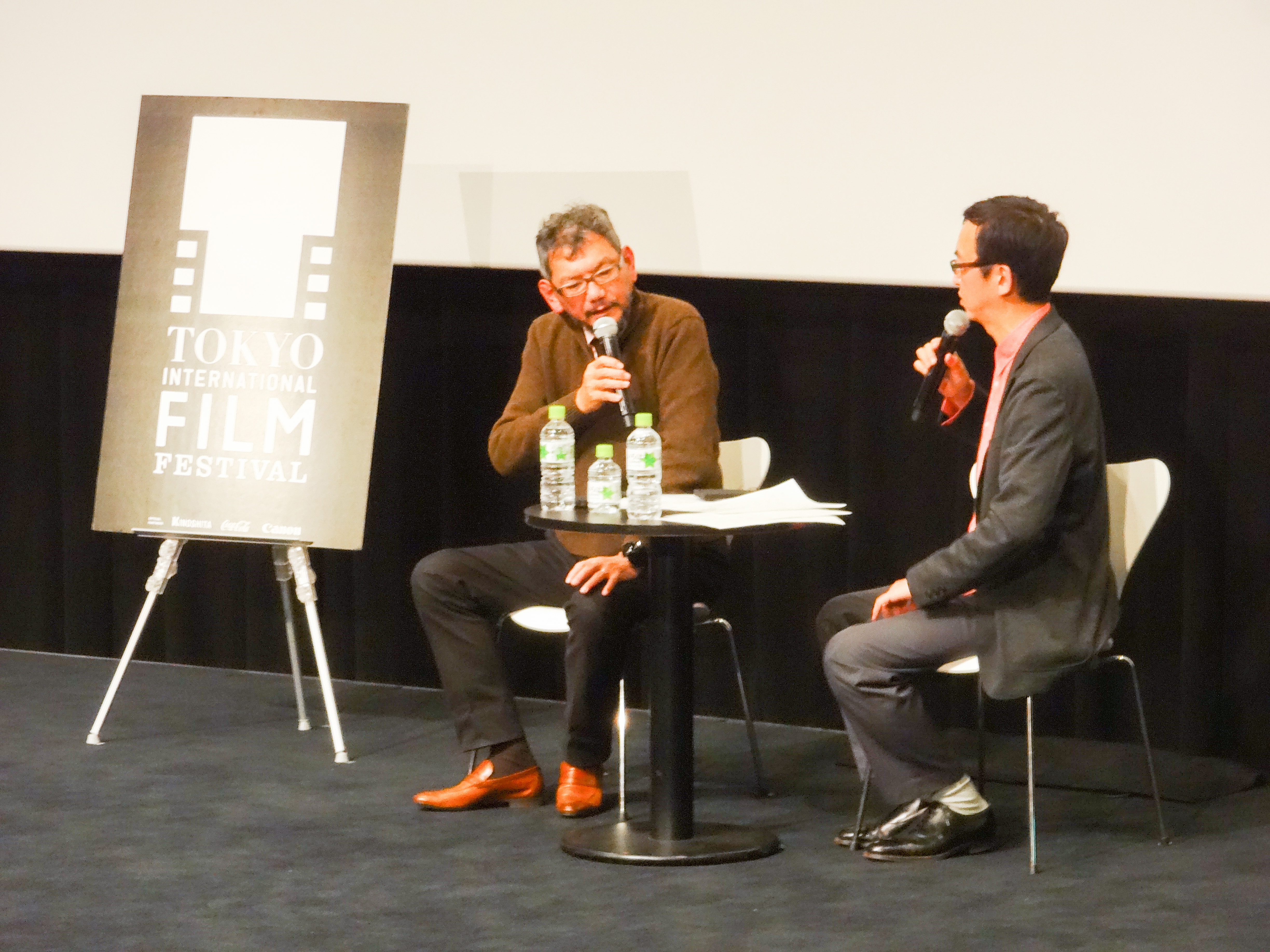 Hideaki Anno, President of the Khara, Inc., and Ryūsuke Hikawa, Visiting Professor of the Graduate School of Global Japanese Studies, Meiji University, participated in "The World of Hideaki Anno", Tokyo International Film Festival, at the TOHO CINEMAS Nihonbashi, Muromachi Furukawa Mitsui Building, in Chūō Ward, Tōkyō Metropolis on October 30, 2014.